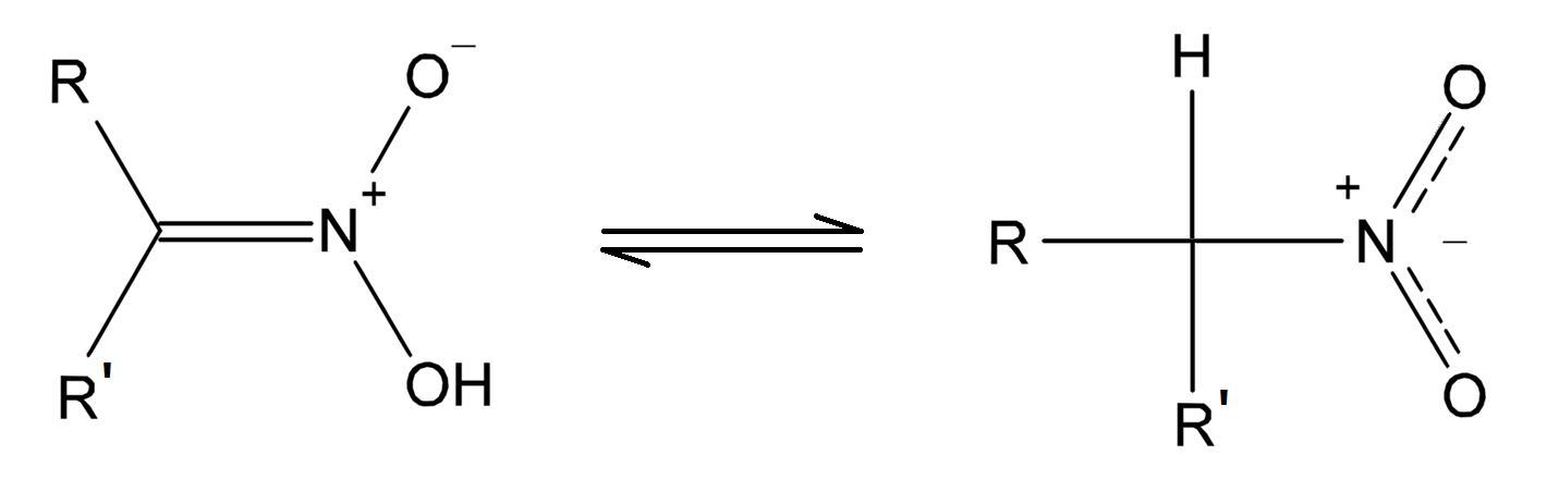 nitronate